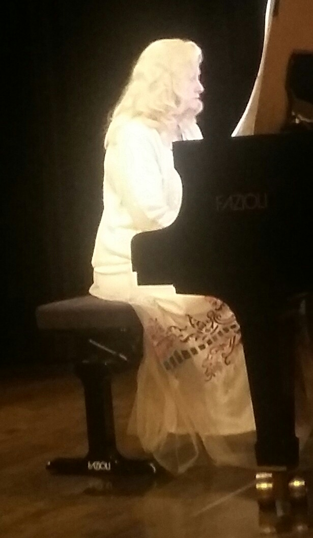 Christina Petrowska Quilico photographed in Montreal, Quebec, Canada at the Bon-Pasteur chapel.